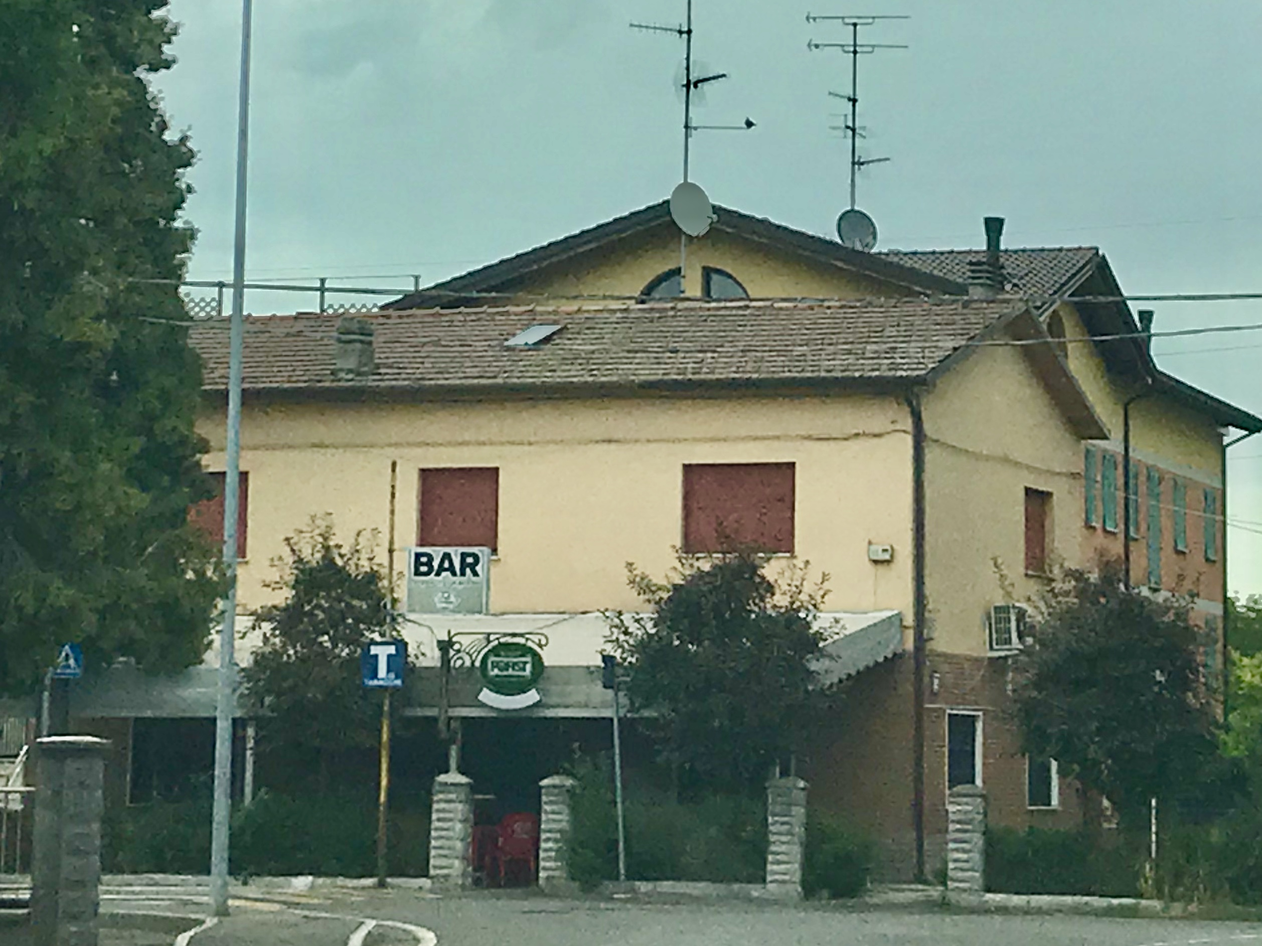 A bar in Corticella, Reggio Emilia, Italy